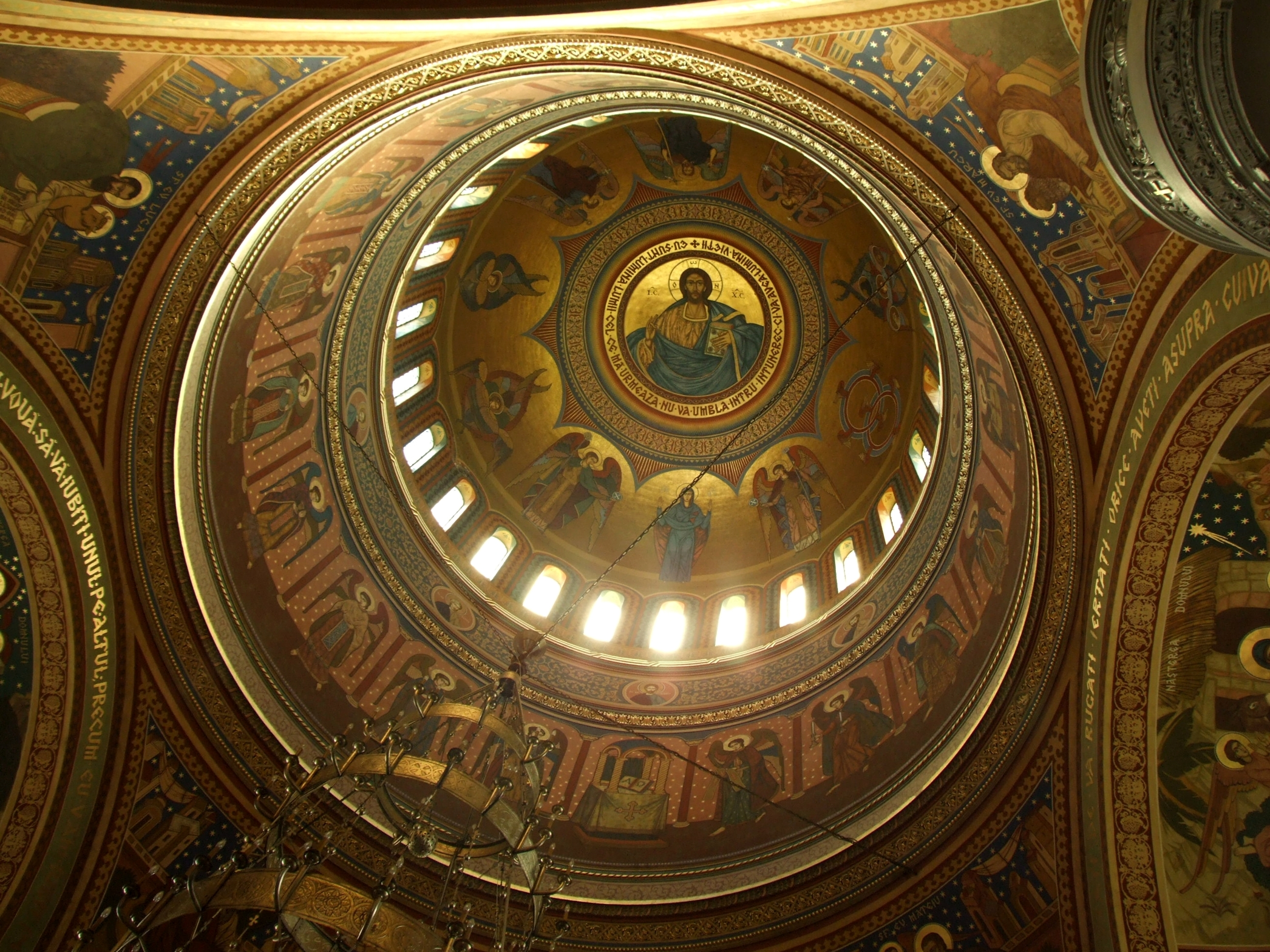 Holy Trinity Cathedral, Sighişoara (Schäßburg, Segesvár) - dome from the inside